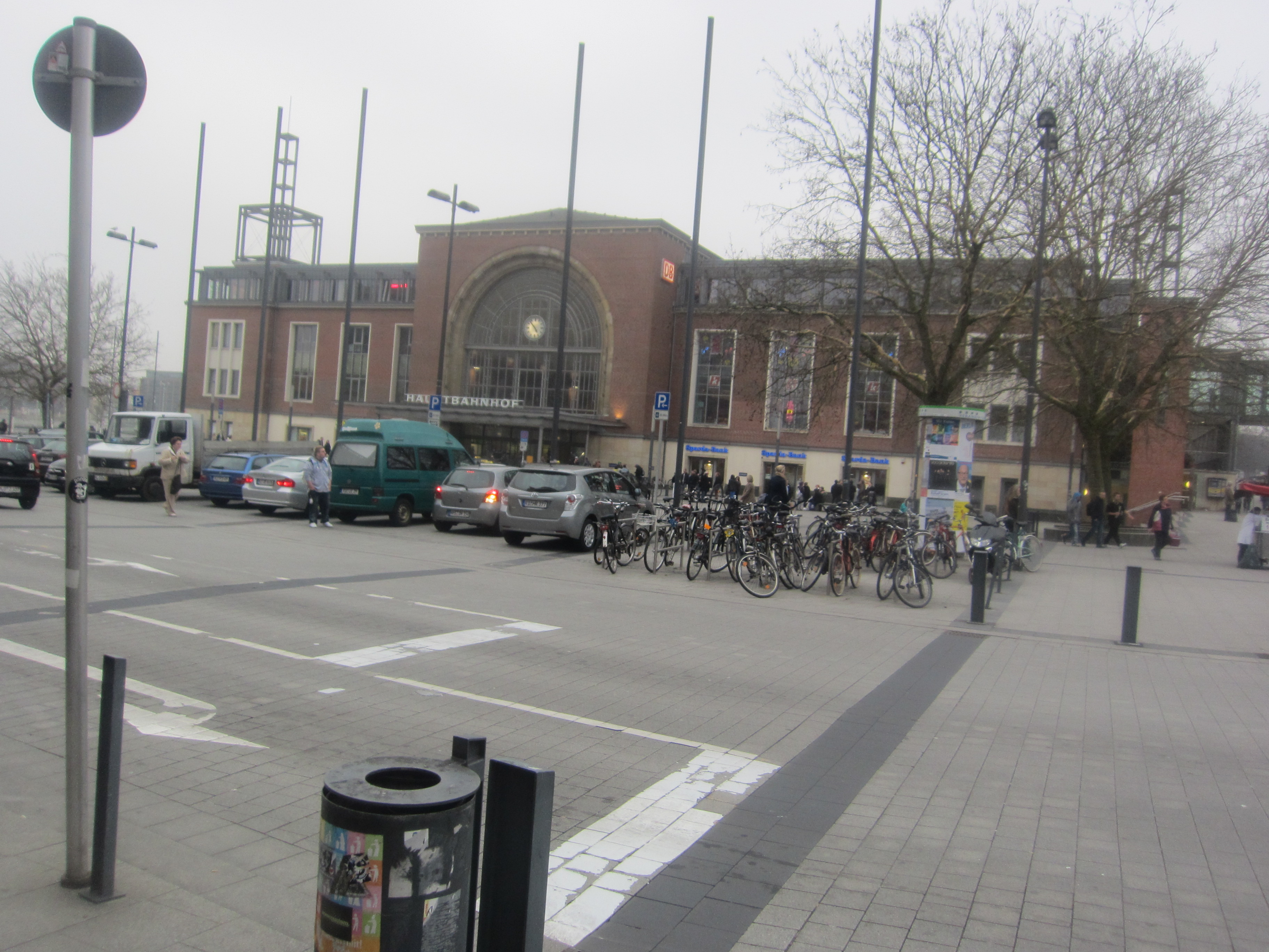 Station forecourt/ Raiffeisenstraße in Kiel-Südfriedhof with Main Station Kiel, Main Entrance = North Entrance